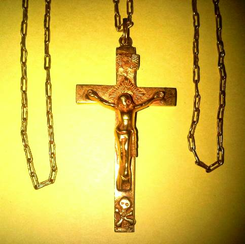 The ABUABU Cross moulded in 1928 with an Kwa-Kwa-AnaMuah shell and ‘smithed’ in unburnished Gold by a craftsman of ABUABUSU village in the Offin River Valley of Denchera